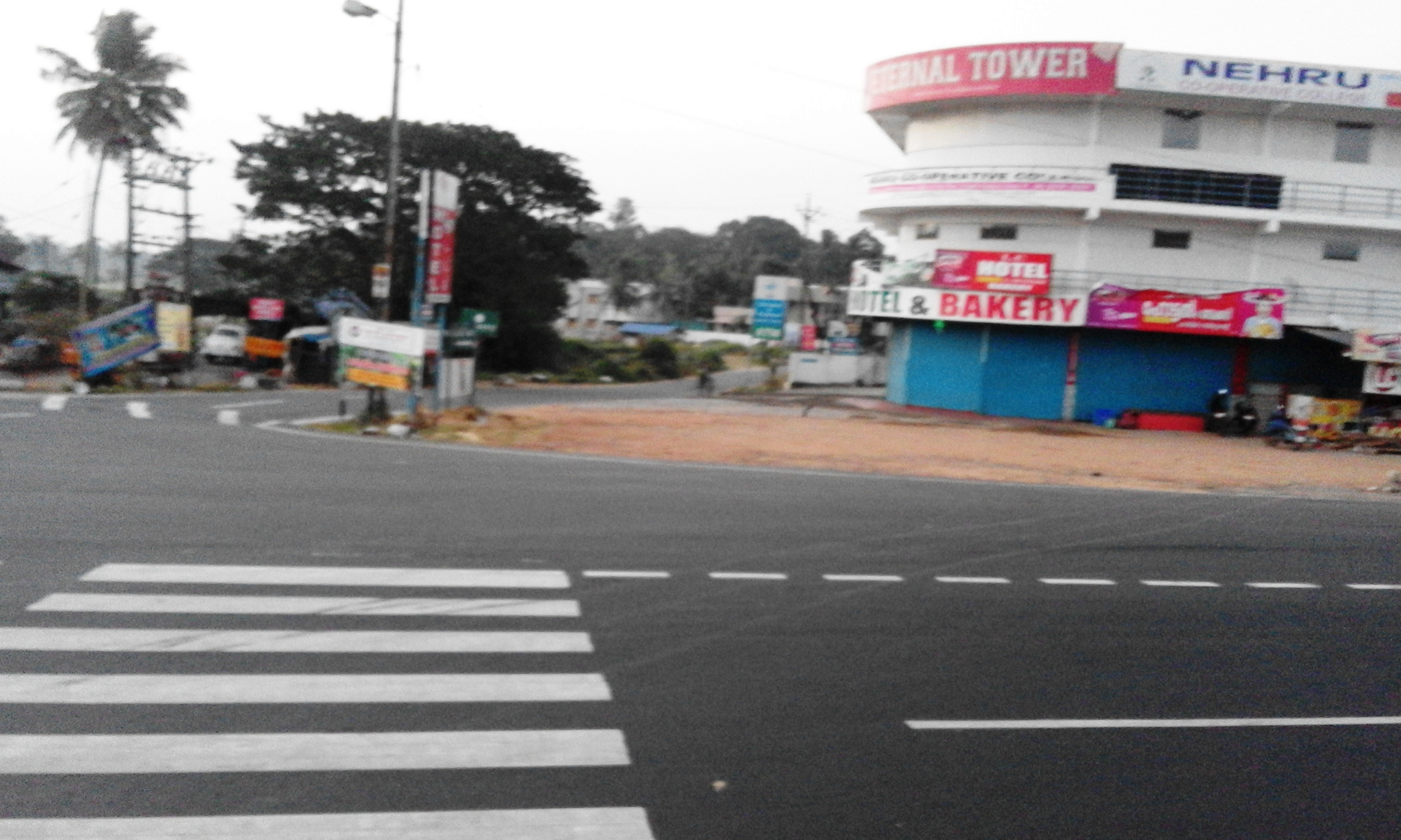 Kannadi village, Palakkad District, South Malabar Region, Kerala State, India.